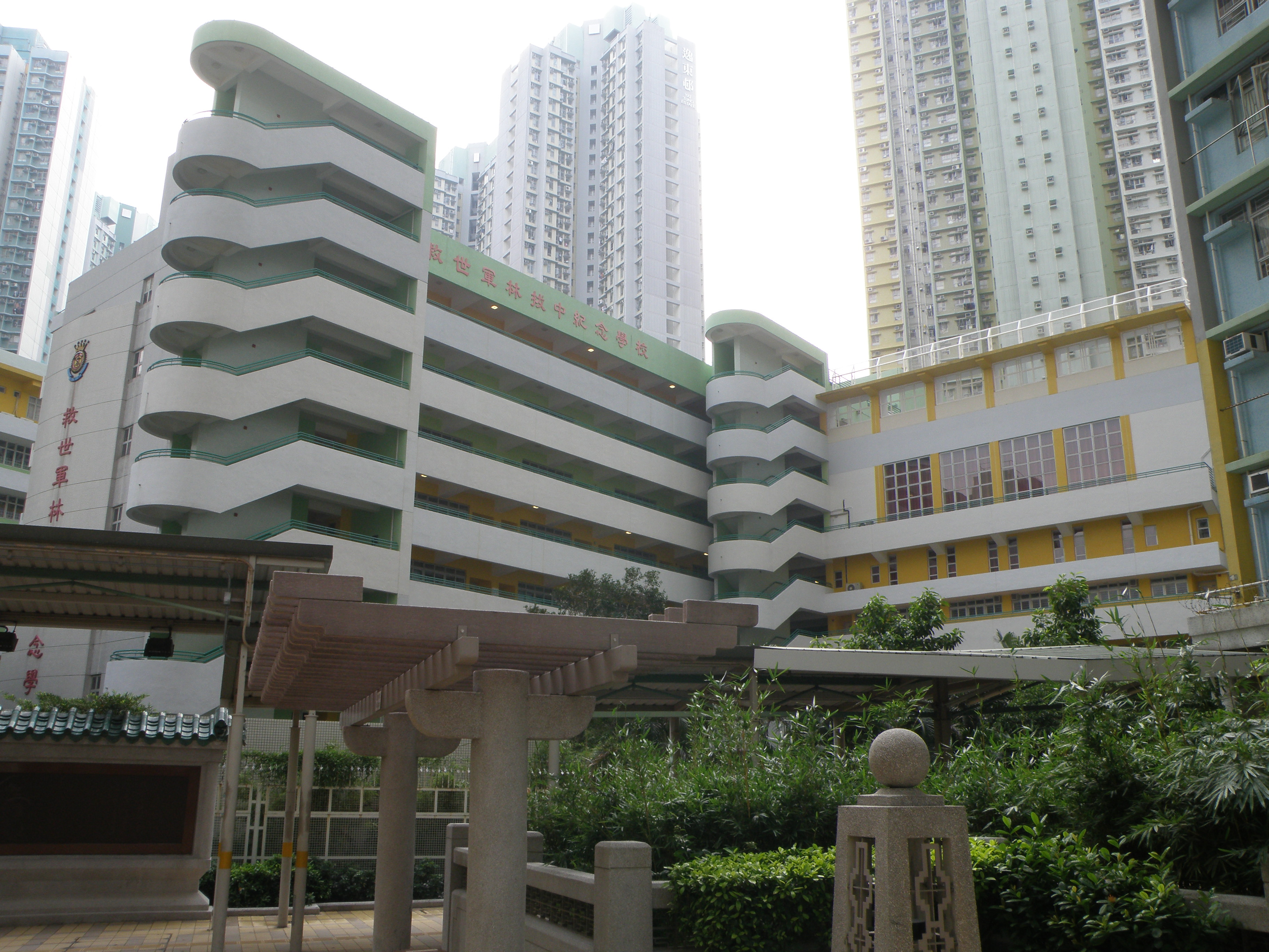 The Salvation Army Lam Butt Chung Memorial School in Tung Chung, Hong Kong.